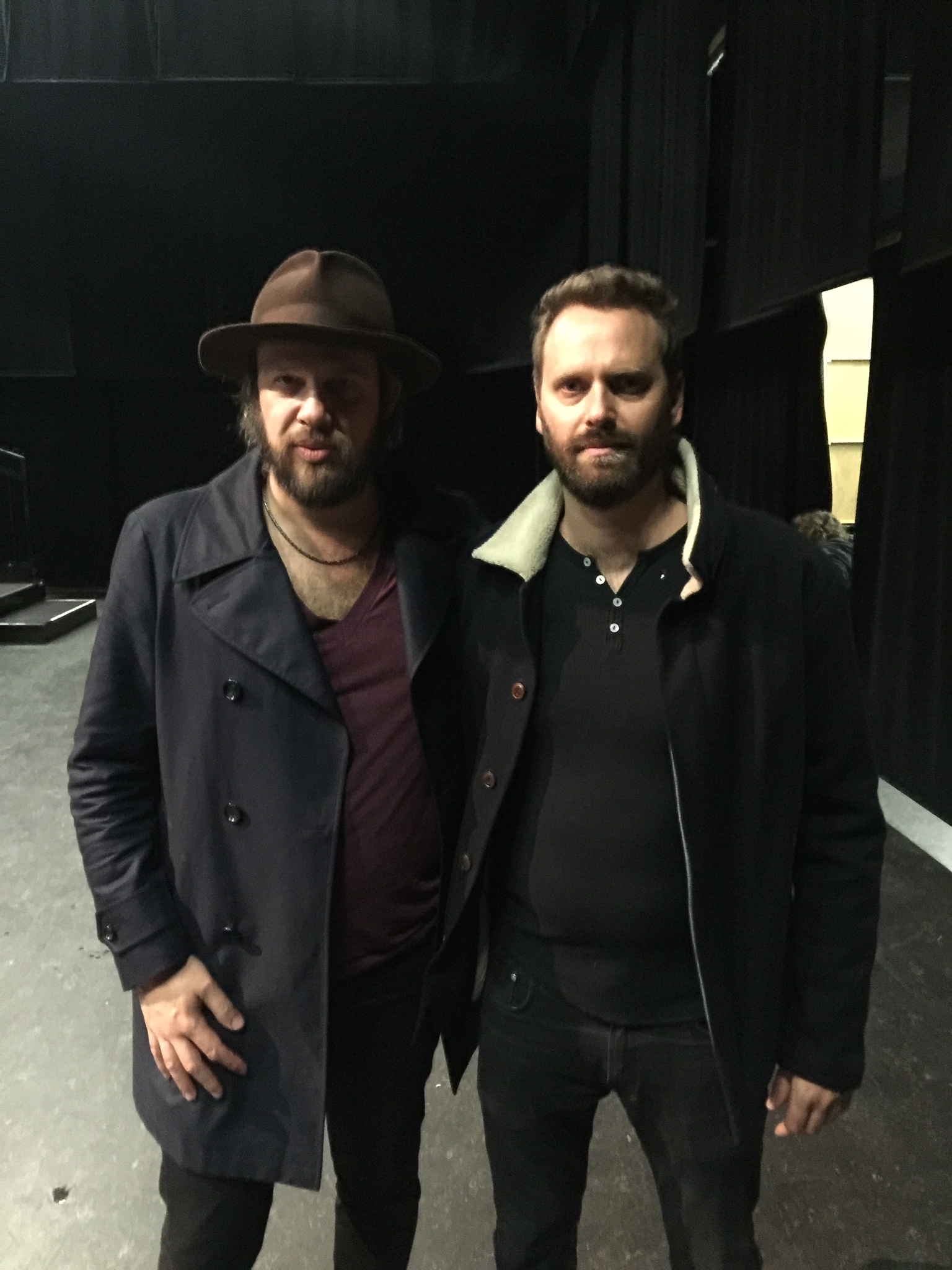 Adam Wiltzie (left) and Dustin O'Halloran at Cactus Club in Bruges, Belgium.